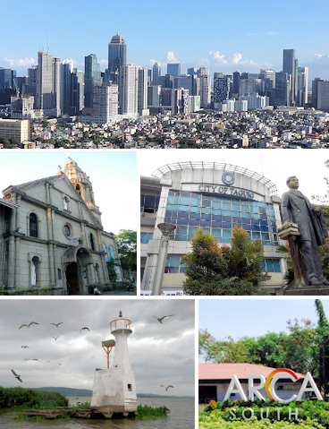 A montage of Taguig City, Philippines